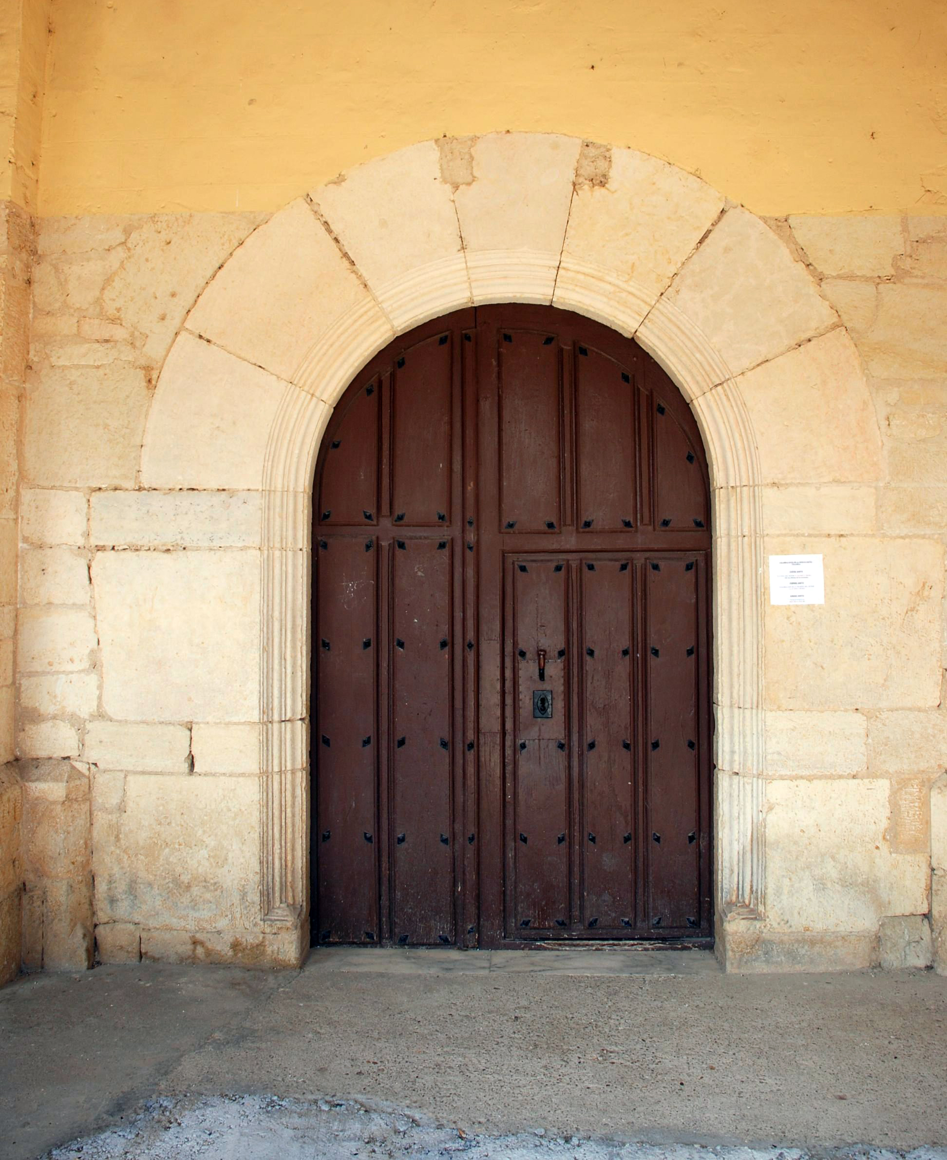 Main gate at Church of Saint Pelagius in Villasila (Palencia, Castile and León).